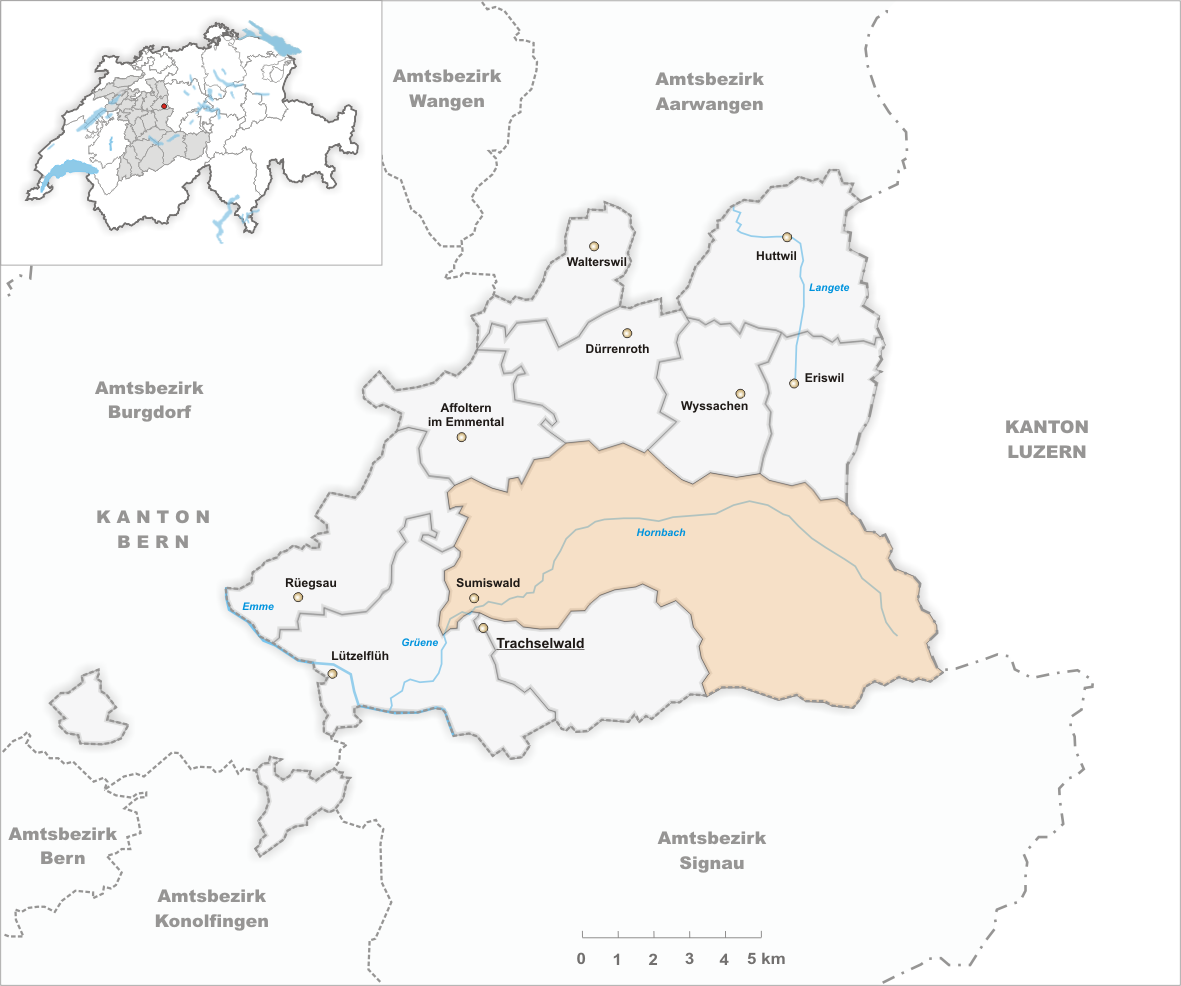 Municipality Sumiswald